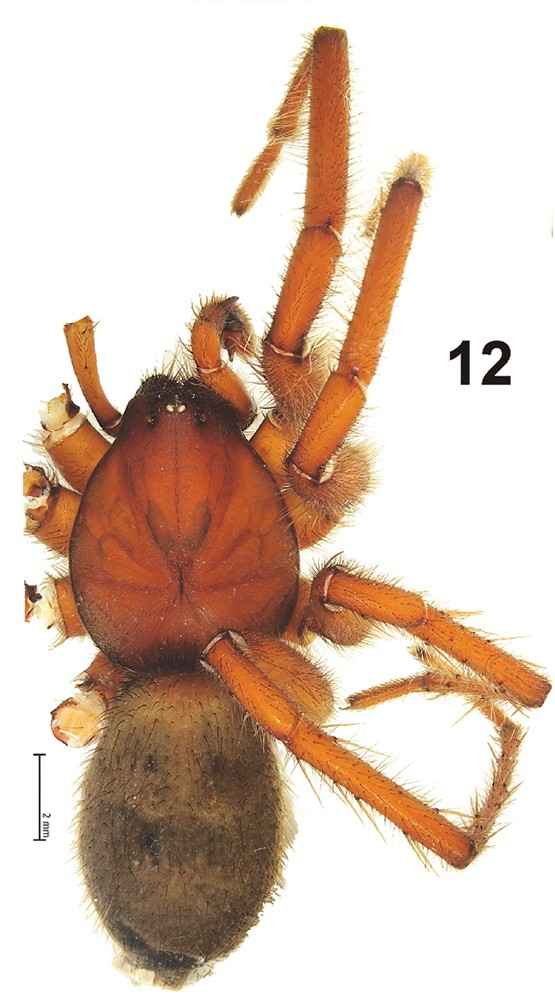 Gnaphosa esyunini male holotype from the Khovd Province of Mongolia.